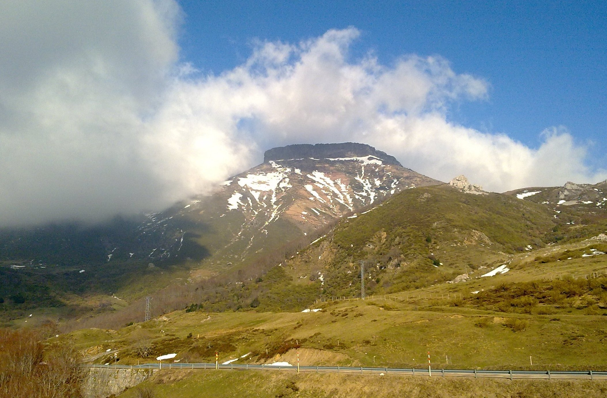 View of Peña Labra peak, in Cantabria and Palencia border, Spain.